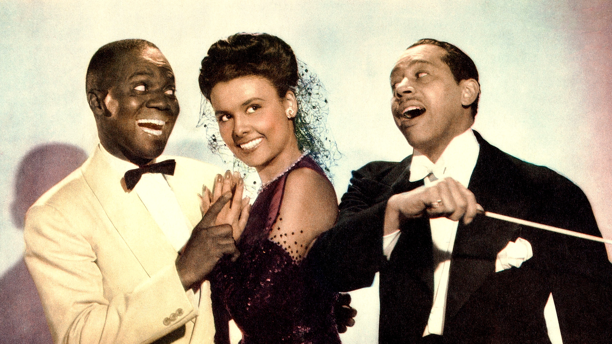 Left to Right: Bill Robinson, Lena Horne, Cab Calloway in the 1943 musical film Stormy Weather. Close-up cropped (at 16:9 ratio) from a lobby card for the film.